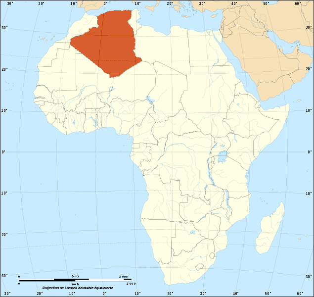 Algeria in africa